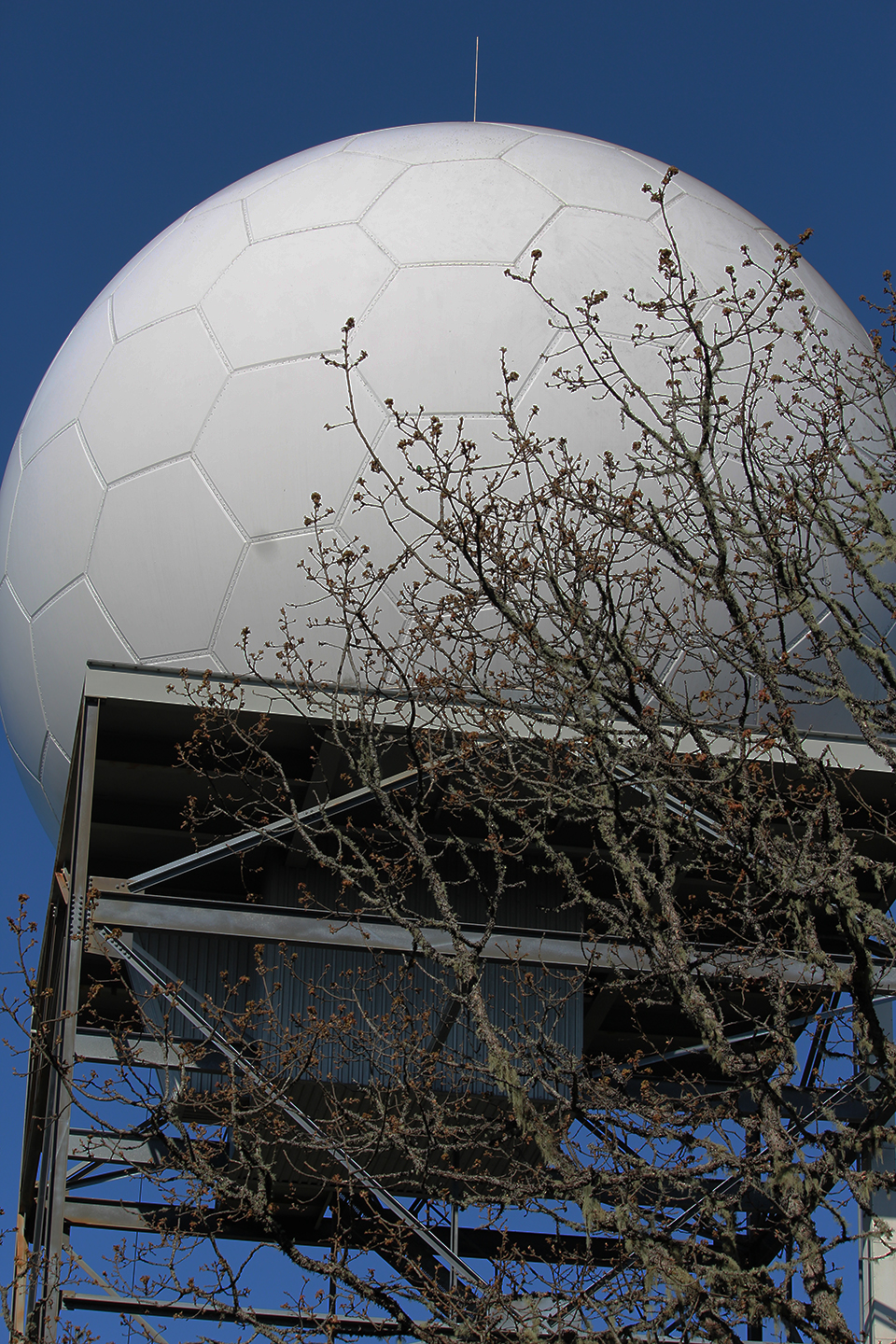 Photo of the radar from behind the fence.